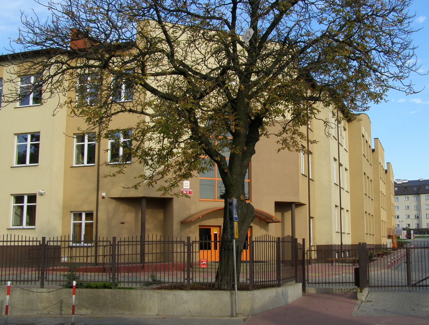 Gymnasium (middle school) of Janusz Kusociński in Mińsk Mazowiecki .